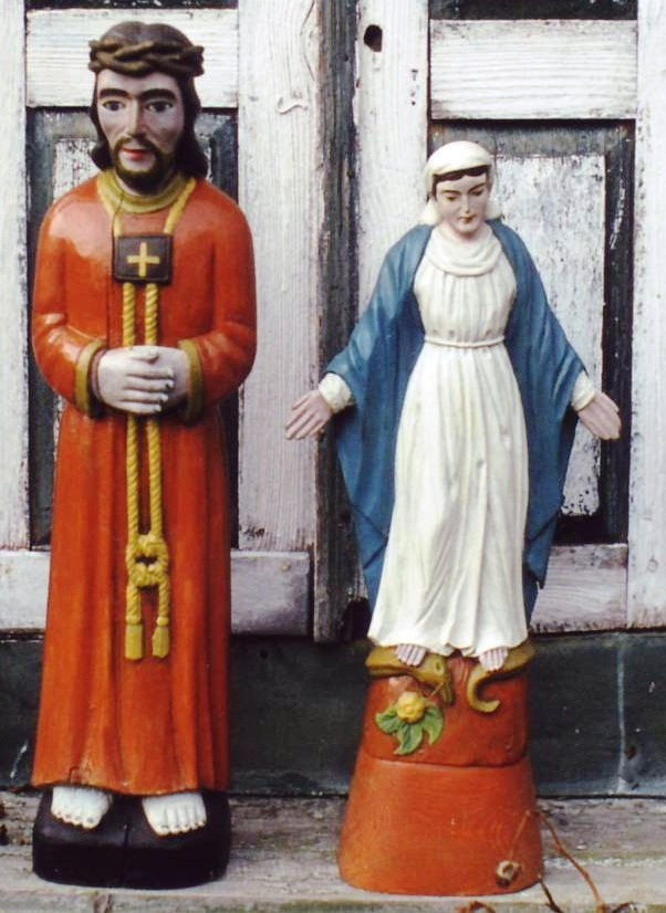 Barzdžiai cemetery, Kretinga district, Lithuania